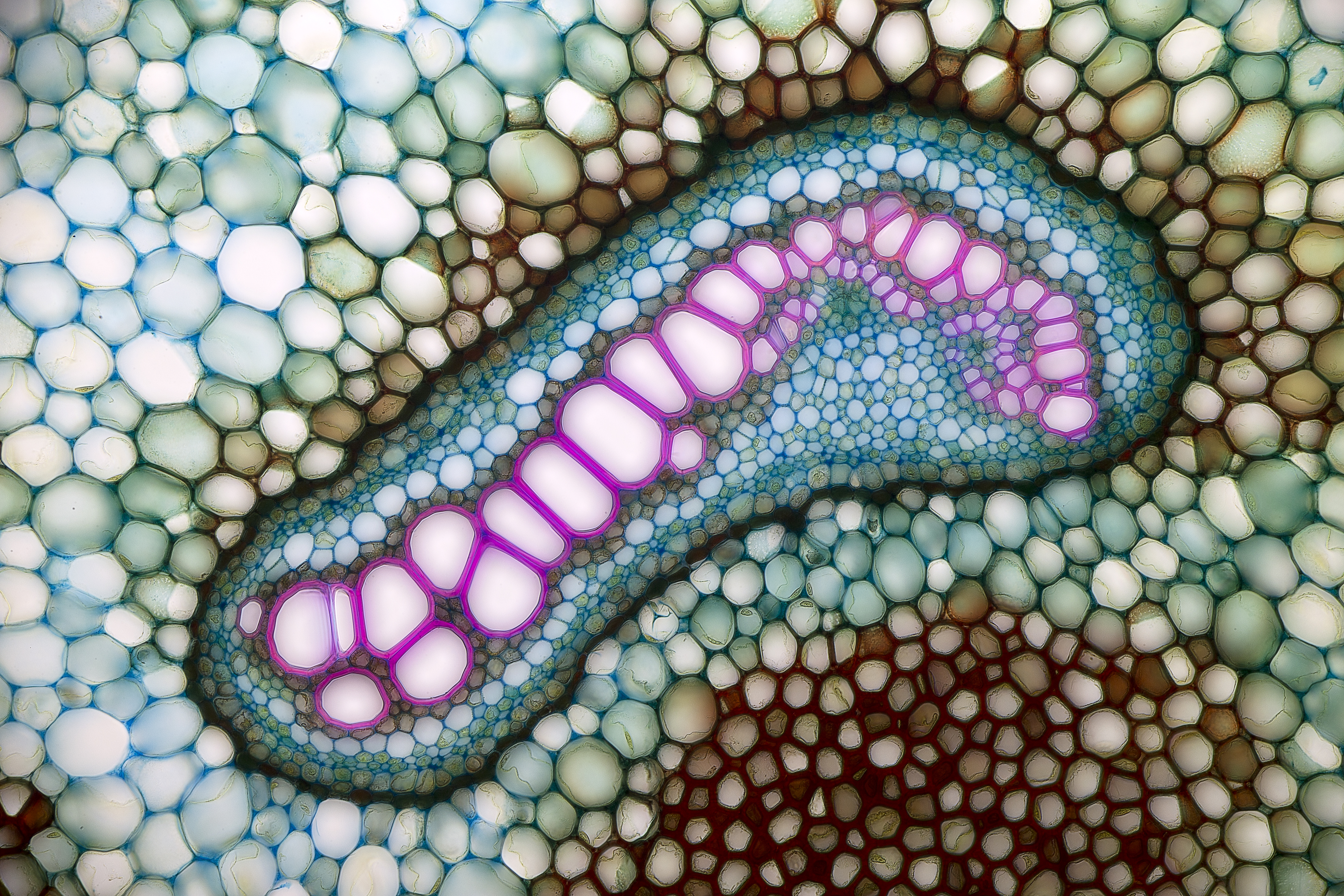 Conductive bunch of rhizomes of fern Pteridium pinetorum ssp. sibiricum. The author used the constant preparation by A.I. Mikhaltsov, polychrome dyeing of tissues according to A.I. Mikhaltsov (2012). As a result, cells of conductive tissues are very clearly visible: large cells whose cell walls are painted in reddish-purple color are cells of xylem, a water-carrying tissue. Cells of the phloem tissue, conducting the products of photosynthesis, are located around the xylem cell. The conductive beam is bounded with cells of the endoderm. Cells of the pericycle are clearly visible between the phloem and endoderm. Parenchyma and sclerenchyma cells (brown cell wall) surround the conductive beam.